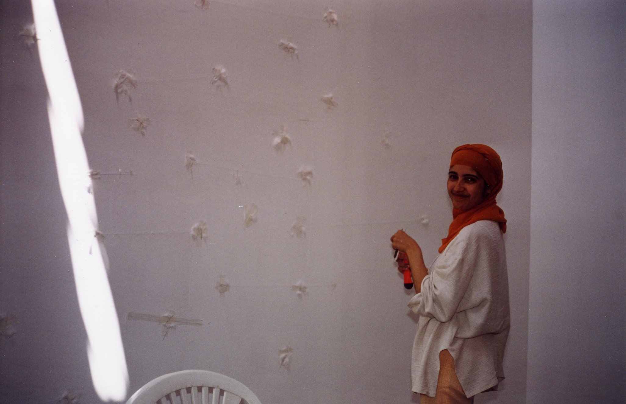 Dakar Biennale 2002. Photo Iolanda Pensa.